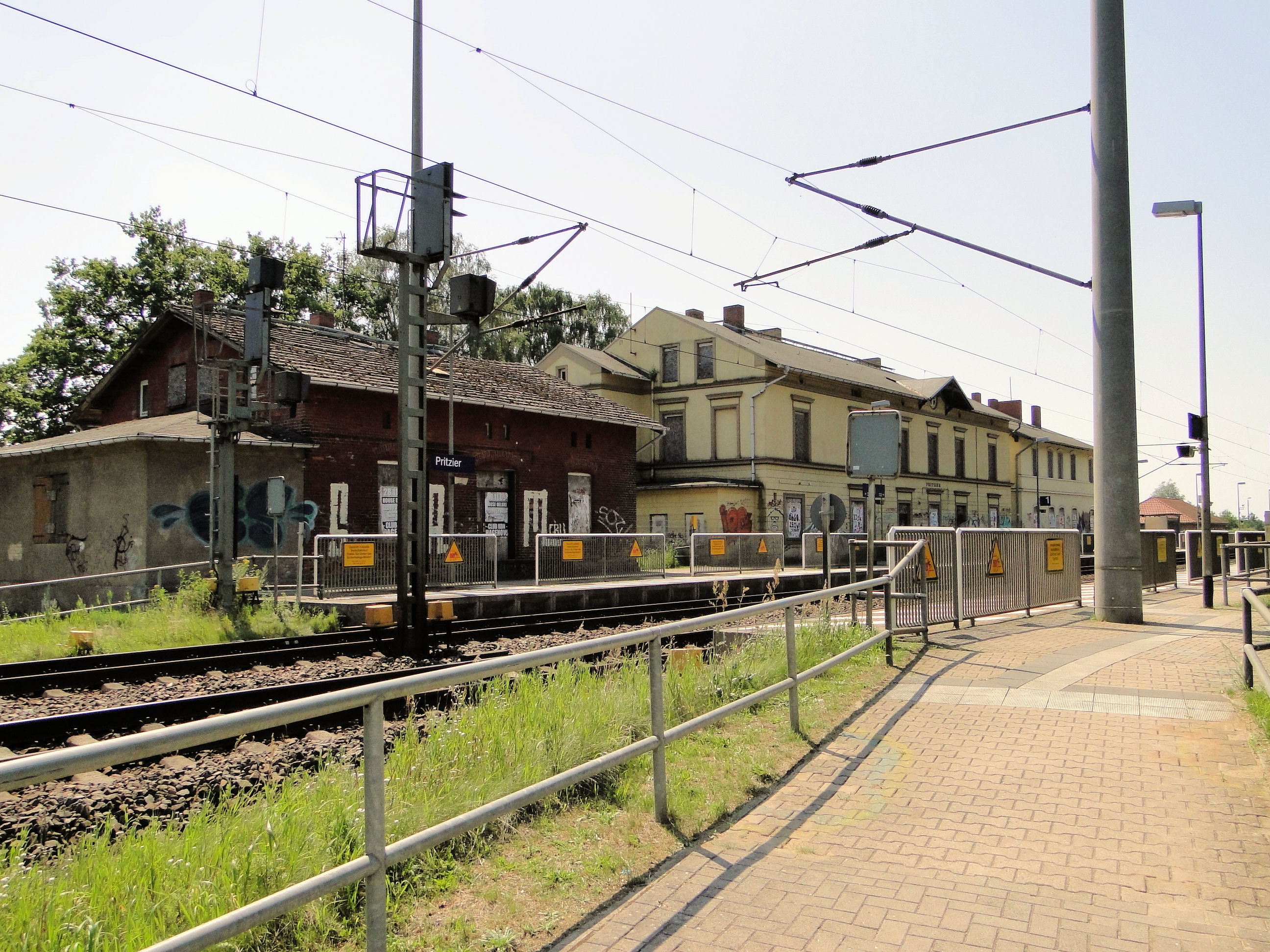 Train station in Bahnhof-Pritzier, district Ludwigslust-Parchim, Mecklenburg-Vorpommern, Germany